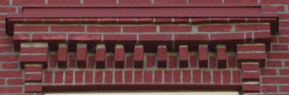 brick dentil ornamental details on Waller Hall at Willamette University in Salem, Oregon.